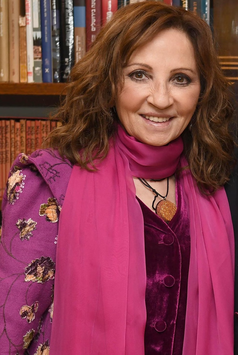 the President of Israel, Reuven Rivlin, meeting with singer Glykeria. Tuesday, February 13, 2018. Photo Credit: Mark Neyman / GPO.